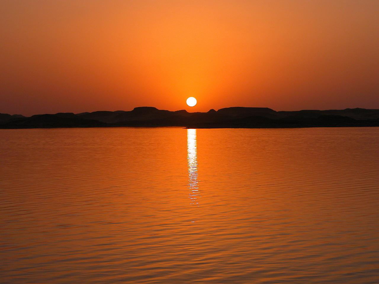 A panoramic view of the sun setting over Lake Nasser in southern Egypt.